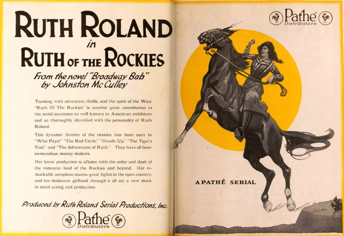 Advertisement for the American western serial film Ruth of the Rockies (1920) with Ruth Roland, on pages 8 and 9 of the August 21, 1920 Exhibitors Herald.